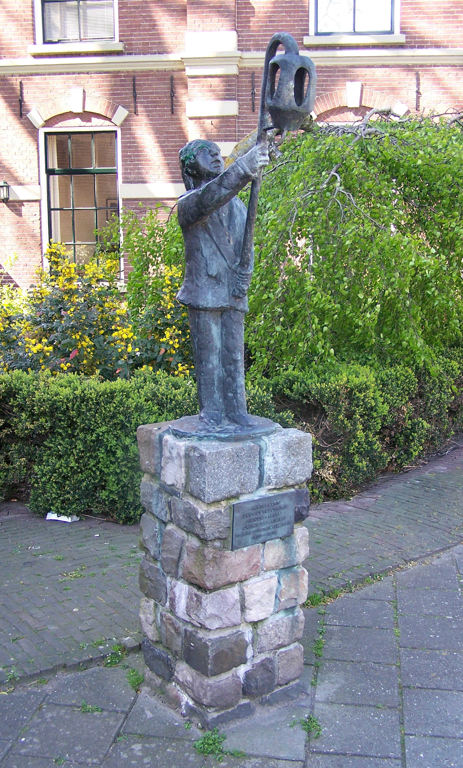 Sculpture "de lantaarndrager" by Thomas Rodr in 1982. Placed at the entrance of the Koornmarktspoort at the IJsselkade in Kampen.